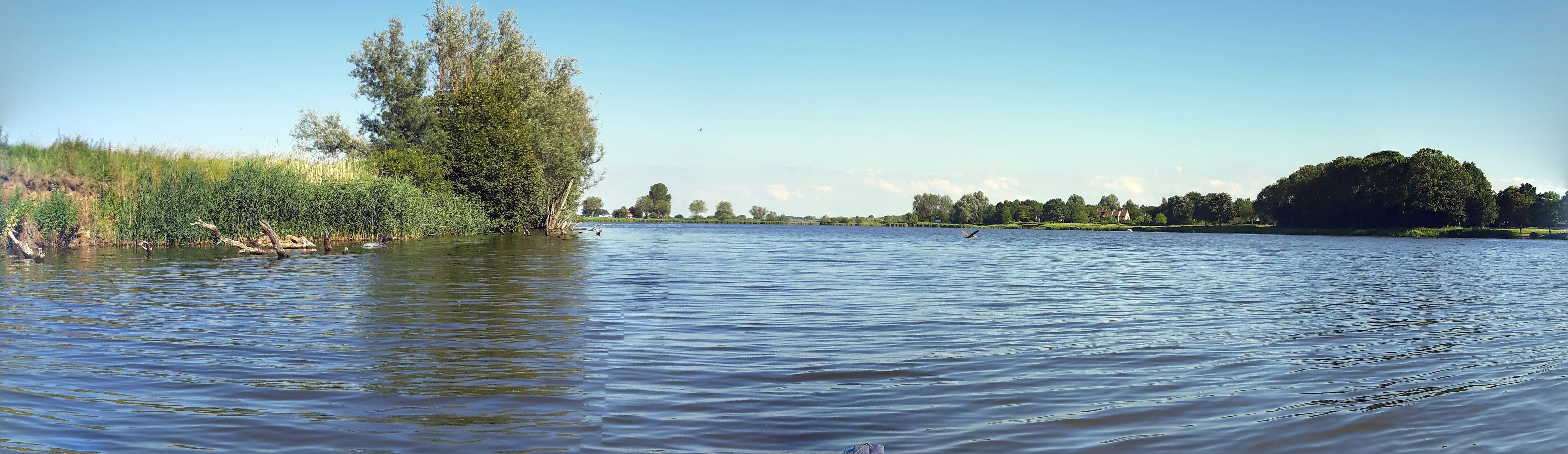 Otheensche Kreek